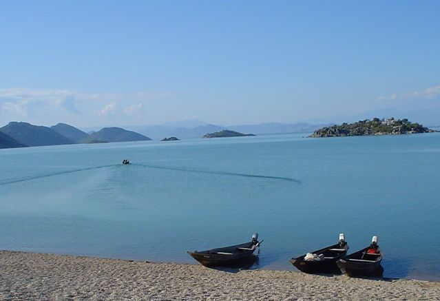 Skadar lake